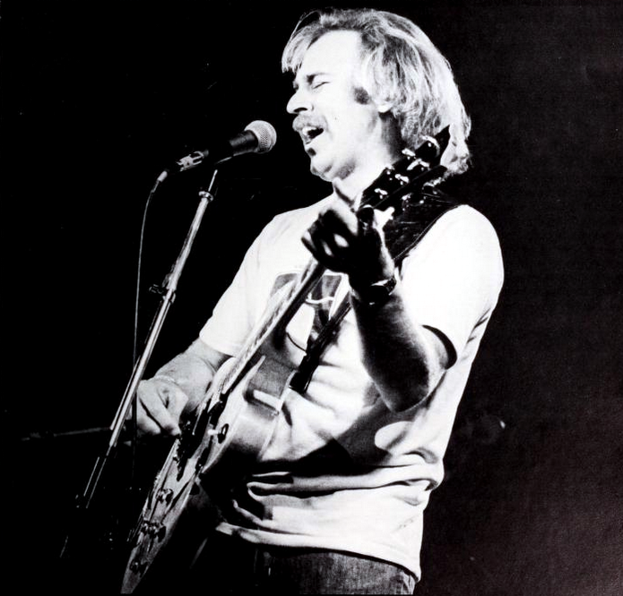 Jimmy Buffett performs at Clemson University